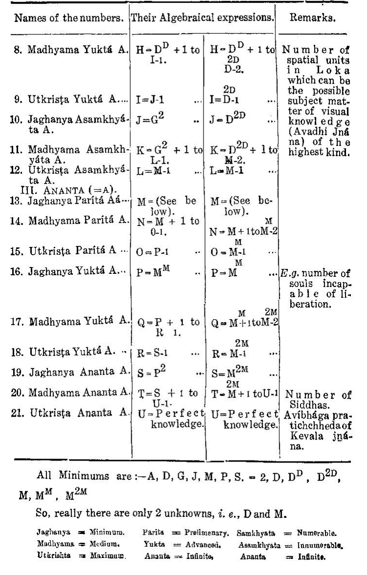 Theory of Numbers in Jainism. Page 21 of the book "The Sacred Books Of The Jainas: Gommatsara Jiva Kanda"